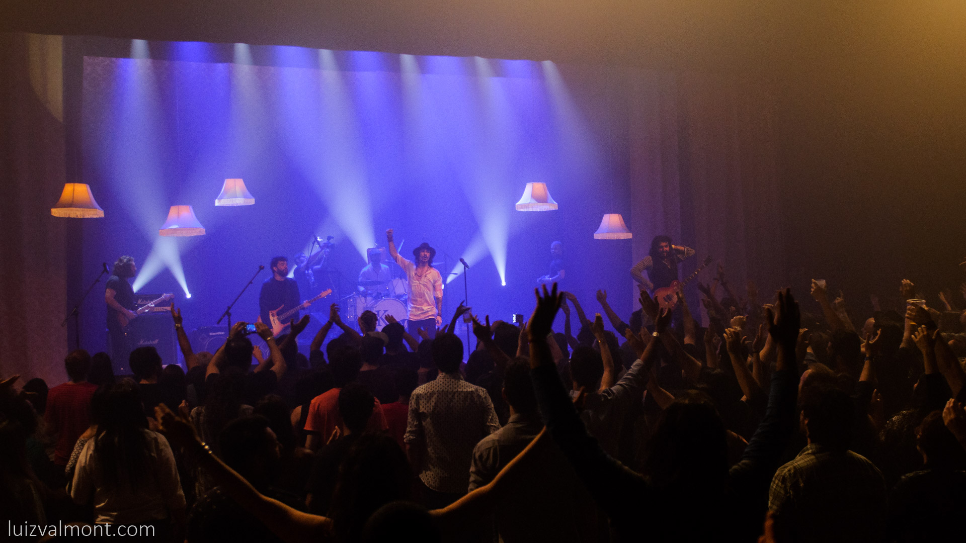 folks no imperator